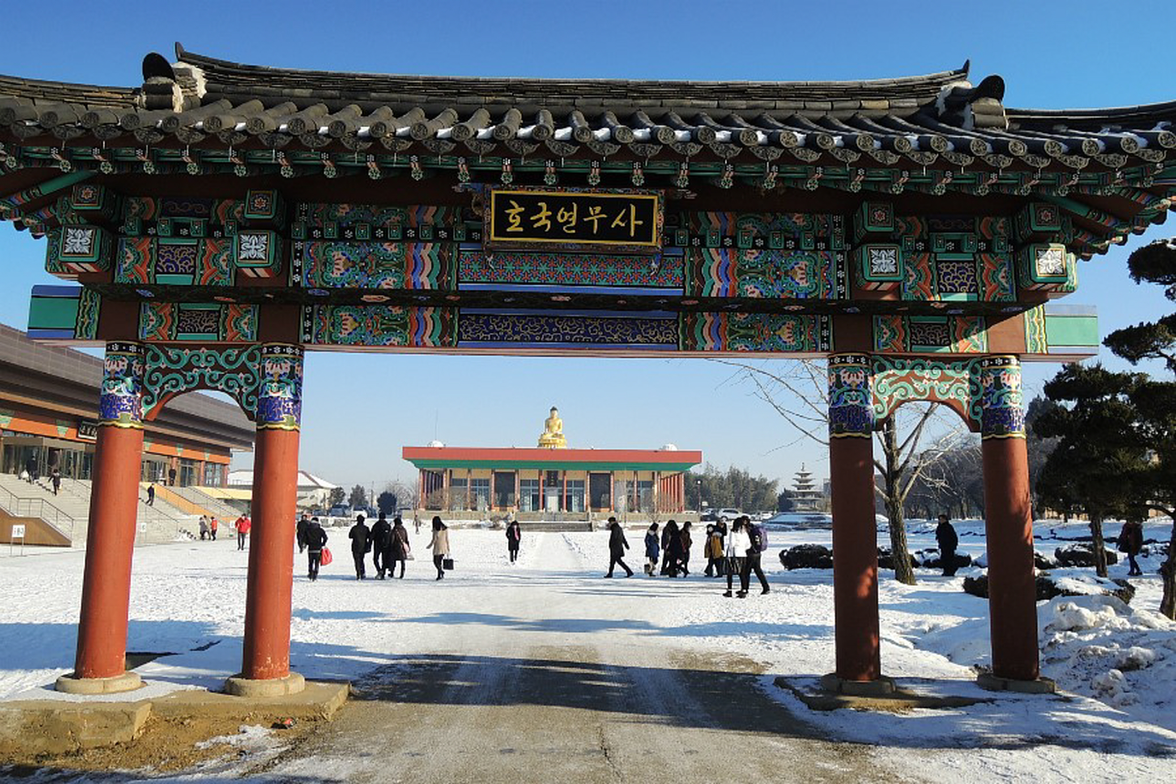 Main gate(Ilju gate) of Republic of Korea Army Training Center Hogukyeonmusa